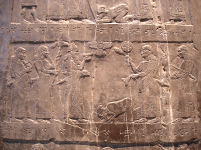 First depiction of Hoshea on the Black Obelisk. He is seen prostrating at the feet of Shalmaneser III(2 Kings 17:3).